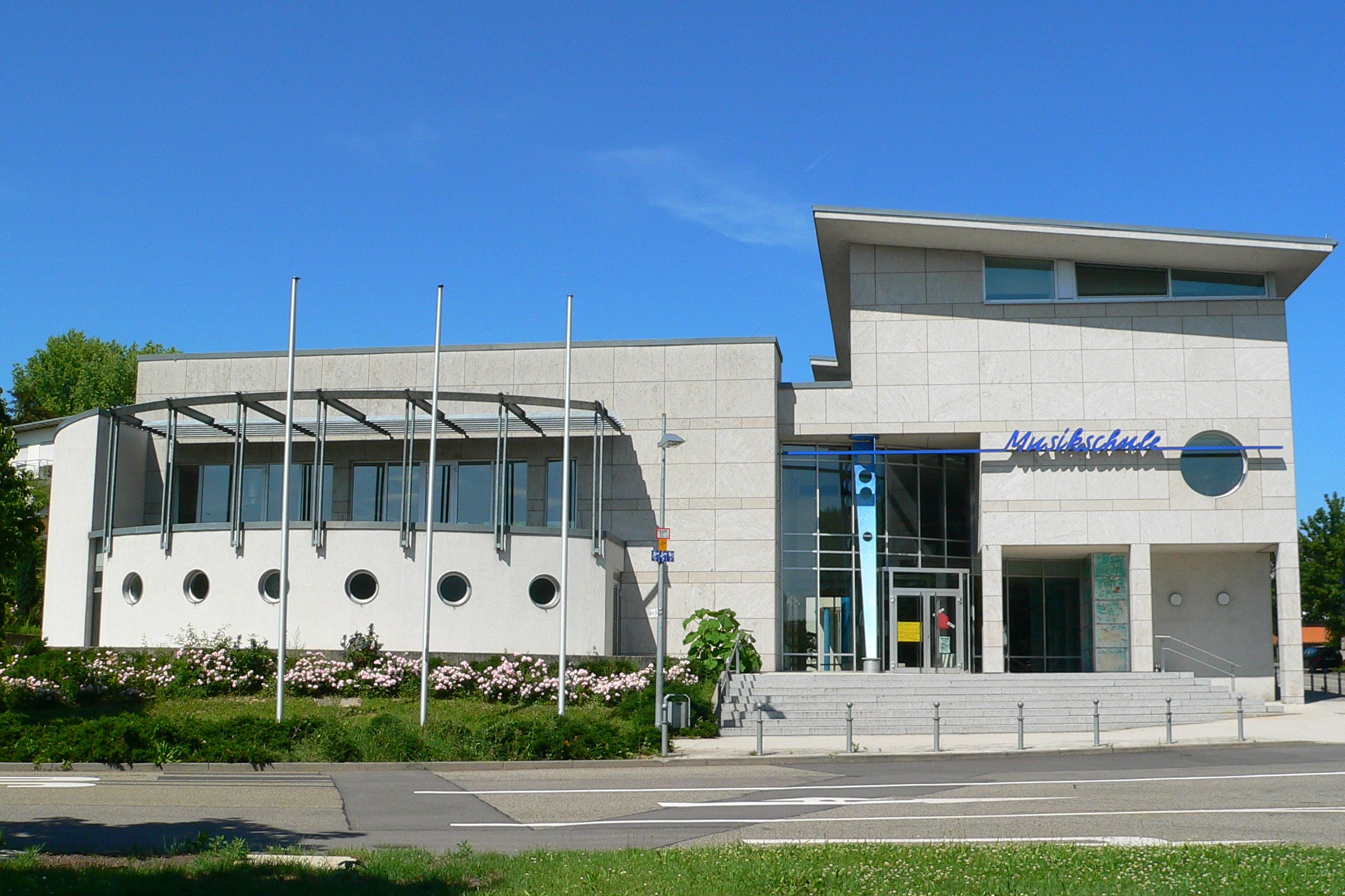 School for Music "Musikschule" of the City Neckarsulm